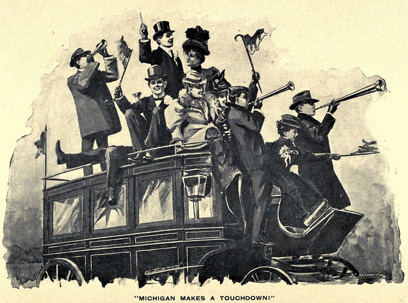 Depiction of crowd reaction captioned "Michigan Makes A Touchdown!"